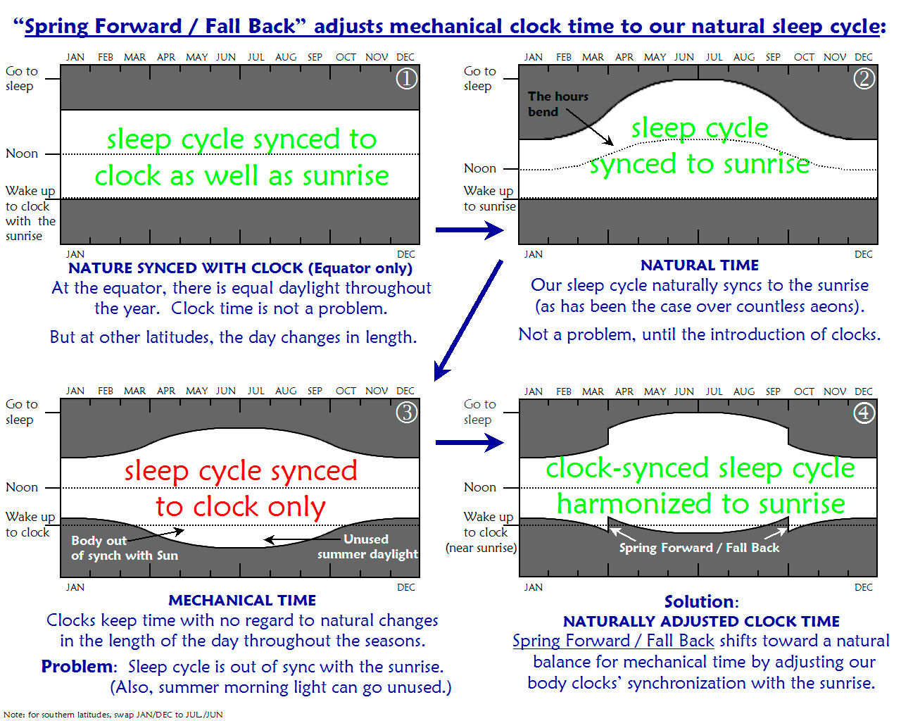 The biological basis for “Spring-Forward/Fall-Back”: The “Spring-Forward/Fall-Back” adjustment is explained as a correction of rigid mechanical time toward flexible natural time so that clock time shifts toward the natural synchronization of our body clocks to the sunrise as it changes throughout the seasons. The natural cycle shown in Chart #2 is more closely matched by Chart #4 (with the Spring-Forward/Fall-Back shift) rather than the unshifted Chart #3. This shows that the biggest justification for shifting our clocks twice each year is that it is a "naturally adjusted clock time". All arguments about whether or not money is saved is secondary to this primary understanding that if we had no clocks, we would naturally wake up throughout the year in synch with the sunrise. "Daylight Savings Time" serves to be a "Naturally Adjusted Clock Time". As Chart #1 shows, there is no need for such a shift for those living near the equator, because the length of daytime at low latitudes does not vary as much as it does at higher latitudes. This world map clearly shows how the vast majority of the global population lives significantly north of the equator, and therefore realizes this benefit from the practice of shifting their clocks: World population density 1994 - with equator.png Natural time is called flexible (where "the hours bend") because hours historically were divisions of time from sunrise to sunset. Sunrise to noon was divided equally, as was noon to sunset. Also sunset to midnight and midnight to sunrise. So Summer had longer daytime hours and short nighttime hours. Winter had shorter day-hours with longer night-hours.